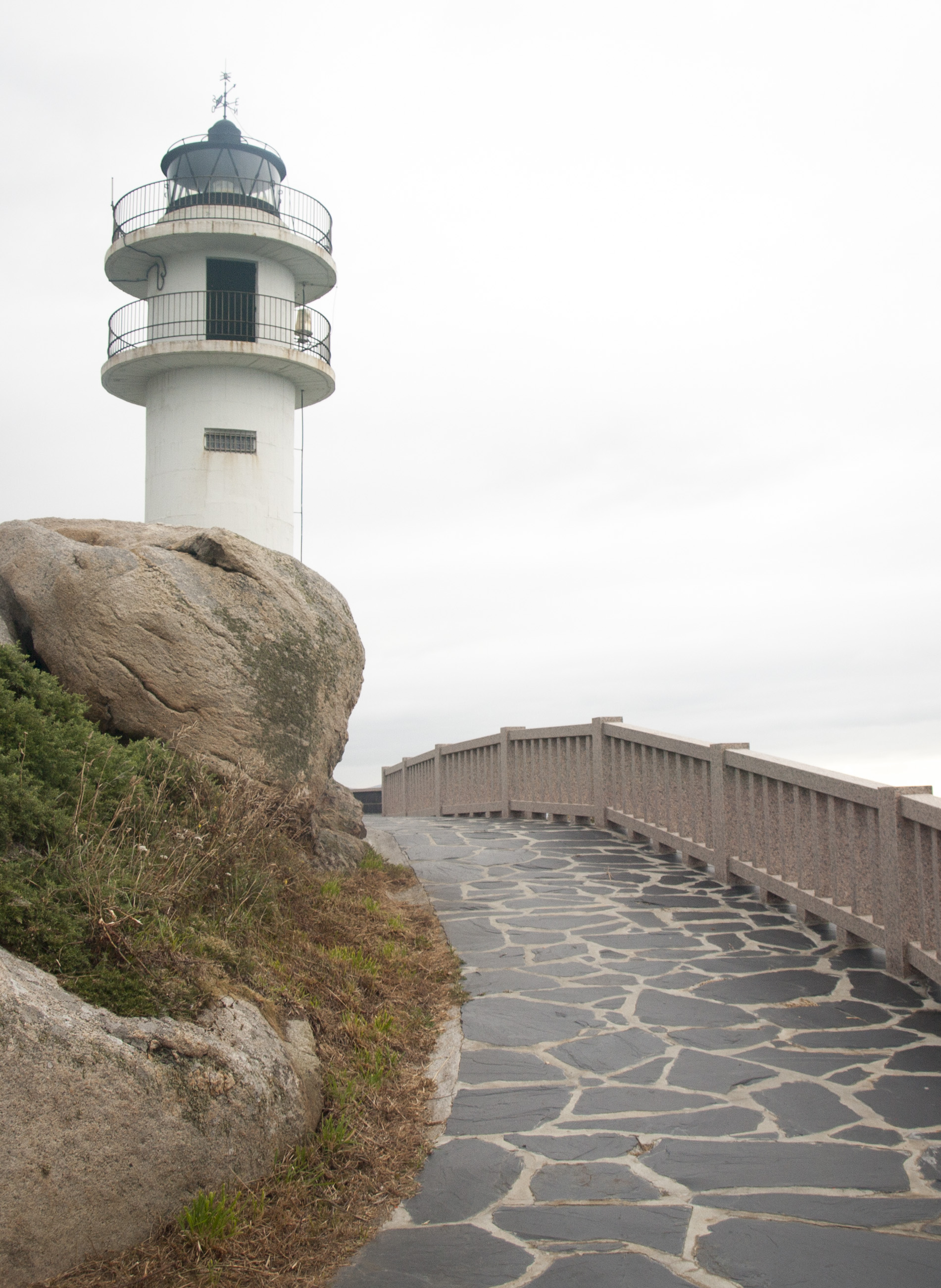 Access way to the lighthouse at Punta Roncadoira in Xove (Lugo).